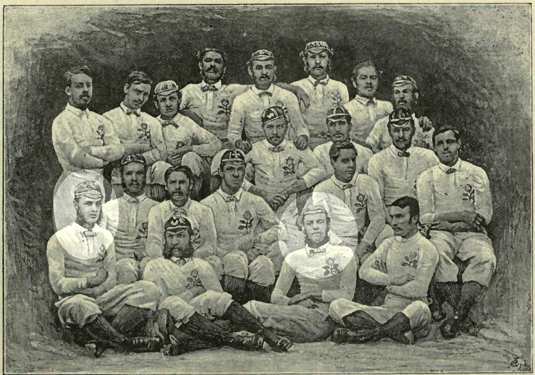 A picture of the first England Rugby side in 1871, with players from the Ravenscourt Park Football Club highlighted.